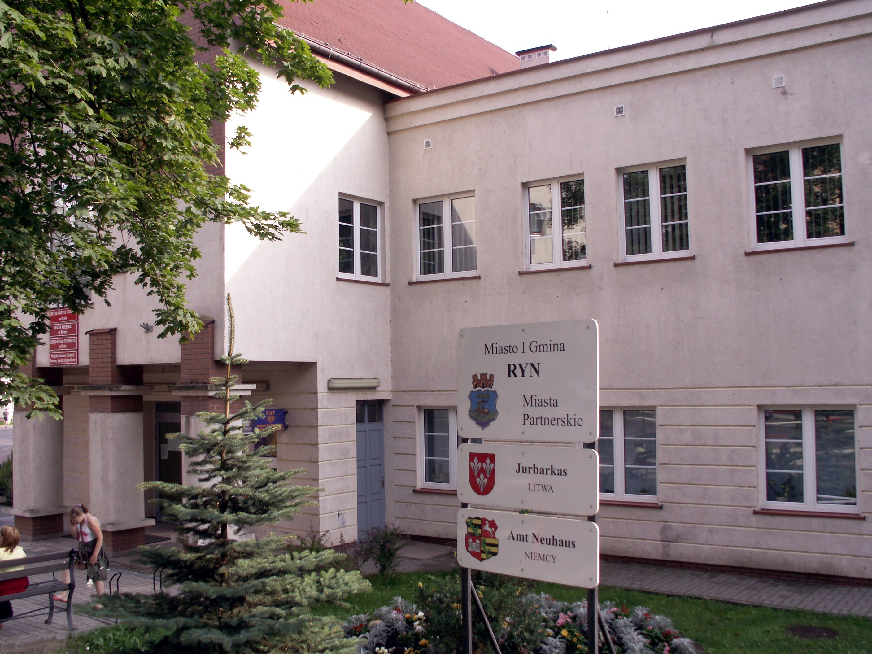 Ryn, gmina